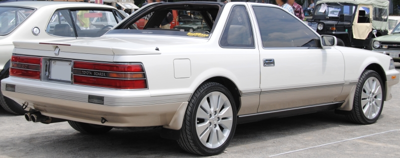 Toyota Soarer Aero Cabin